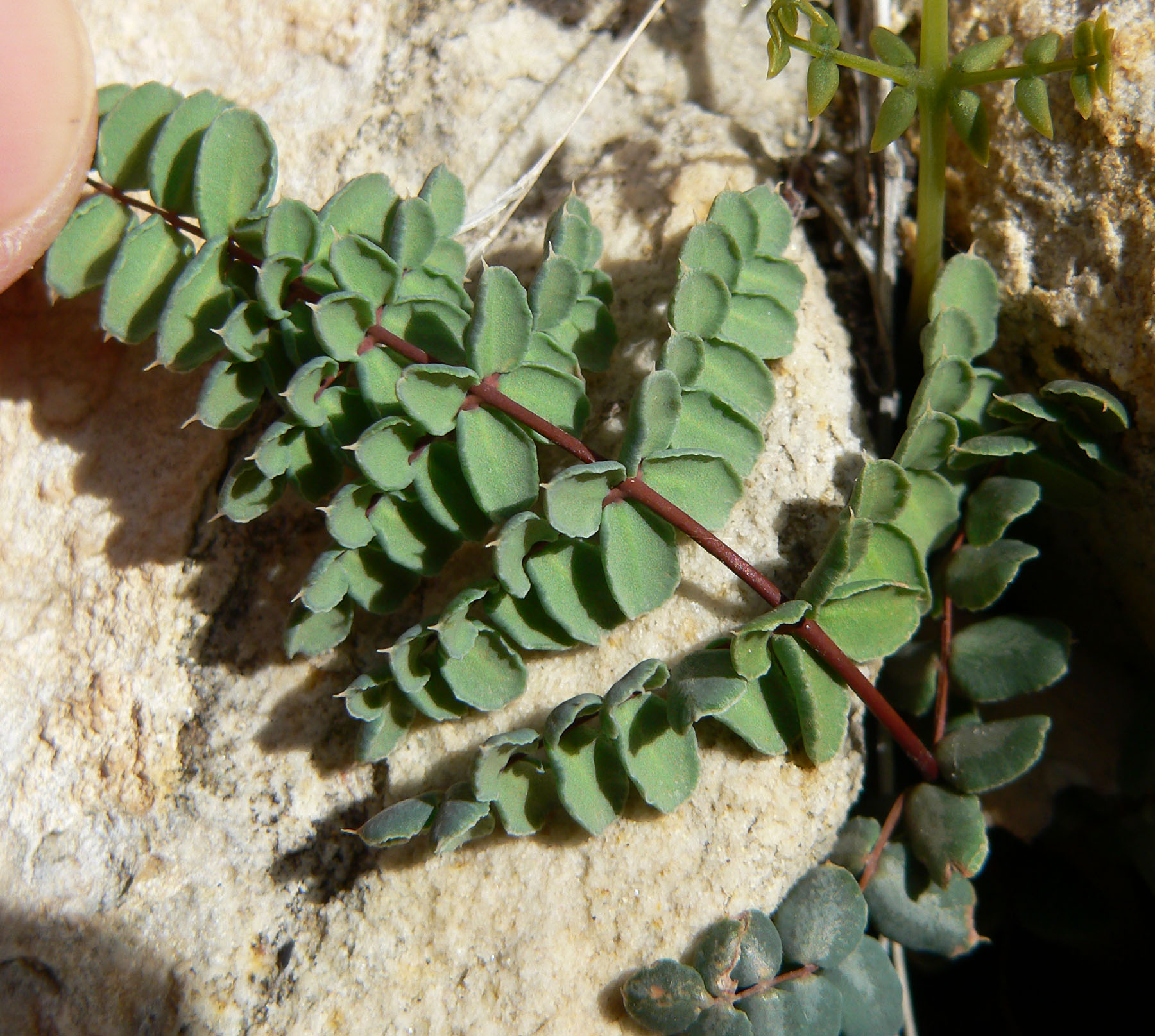 Pellaea truncata at White Rock Spring, Red Rock Canyon, southern Nevada